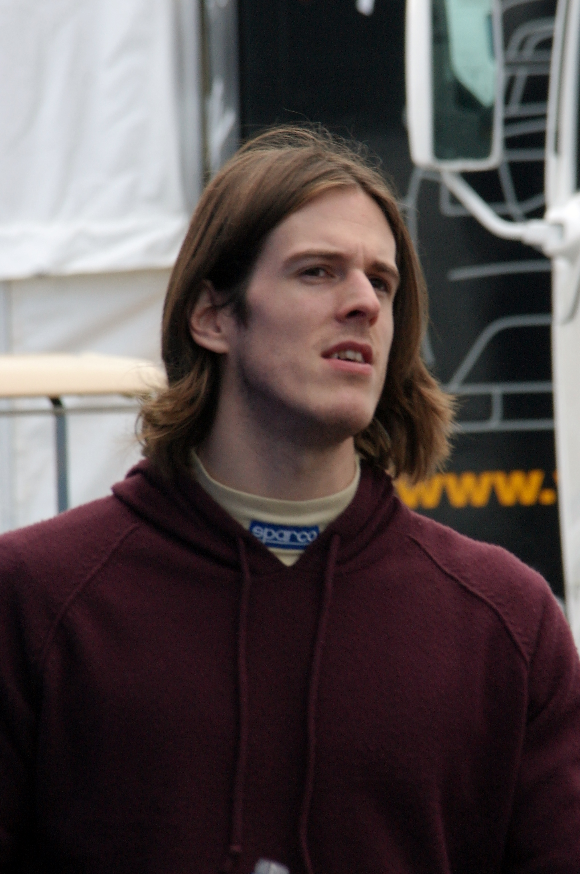 Will Bratt at the Silverstone round of the 2013 British Touring Car Championship season, Saturday 28th September.